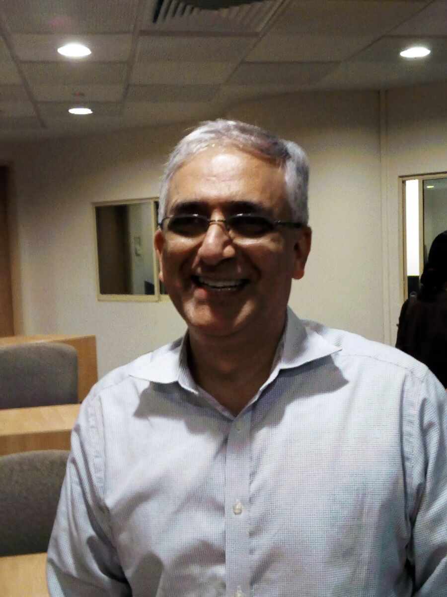 Photo of Arun Rai taken with his permission, during a public event at NUS in Singapore in 22th of June 2017.